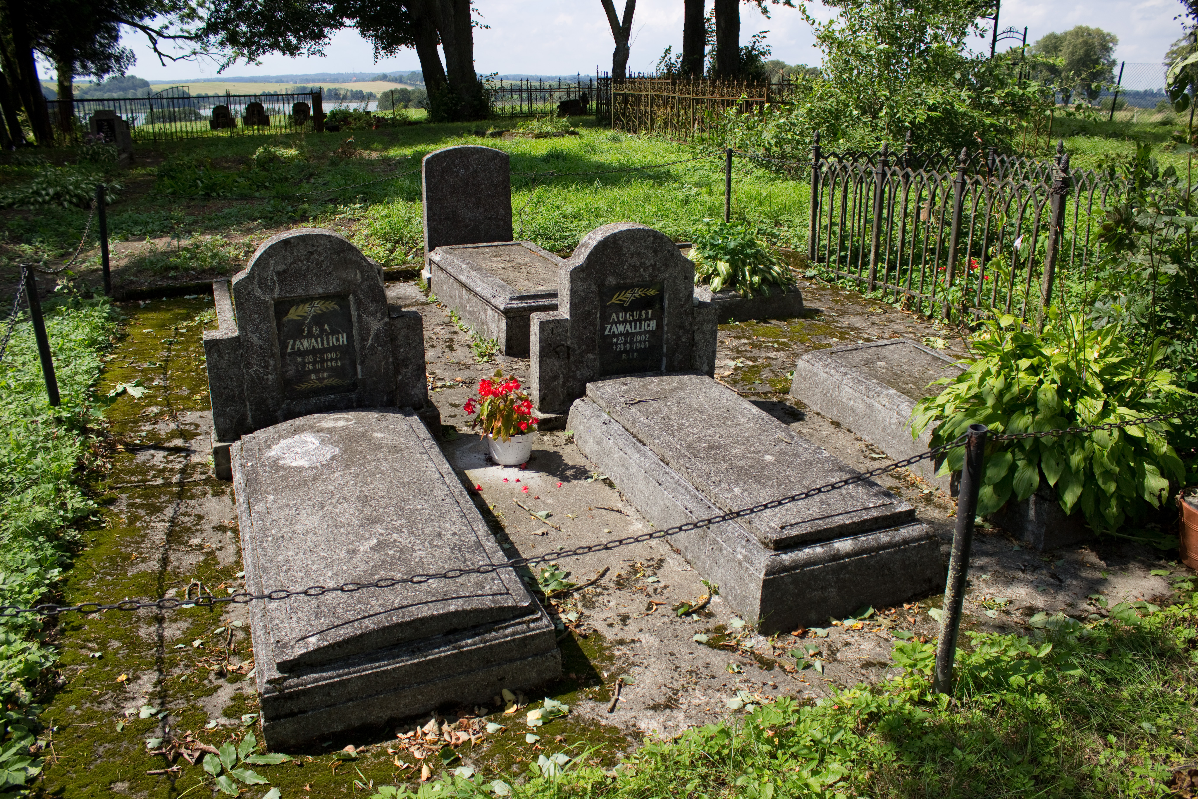 Cemetery, Wyszembork, gmina Mrągowo, powiat mrągowski, Warmian-Masurian Voivodeship